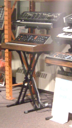 Moog Lyra (1973, prototype) — a touch-sensitive monophonic synthesizer of Moog Constellation, used by Keith Emerson Moog Minimoog Model D (1970 or 1972, S/N 1081 or 2768) This is a shot of part of Canto's collection of MOOG synths. Visited the Cantos Foundation museum of electronic instruments and keyboards in February 2009 and took a lot of photos and videos. Confession: when I first saw this, I squee-d in absolute and uncontainable glee. Trackback: MatrixSynth - thanks for the link. Several prototypes and early custom build systems of Moog synthesizer are stocked and displayed at Cantos Music Foundation, Canada.[1][2] For example: 1CA Chris Swanson Modular System (1965, custom build) — most left on photograph Chris Swanson was a composer and early demonstrator of R.A.Moog, Inc. Lyra (1973, prototype) — 2nd row from the left on photograph Apollo (1974, prototype, home unit) — stocked Patrick Moraz Double Minimoog (1973) — 3rd row from the left Micromoog II, Micromoog XL, and Multimoog (1977) — 4th row from the left References ↑ Collection checklist. Cantos Music Foundation, Canada. ↑ Collection checklist. National Music Centre, Canada.